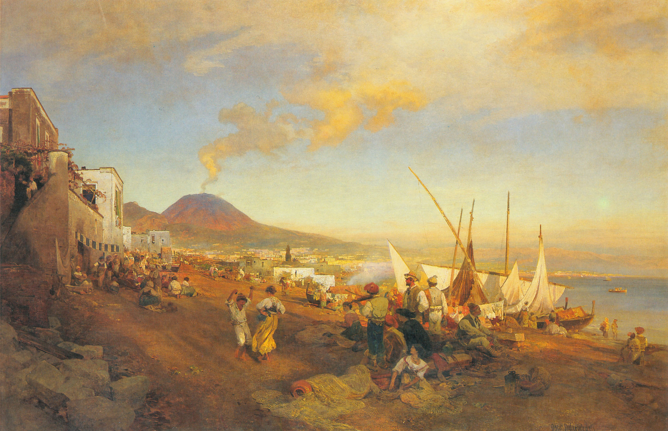 Am Strand von Neapel - oil on canvas, 100 x 151 cm